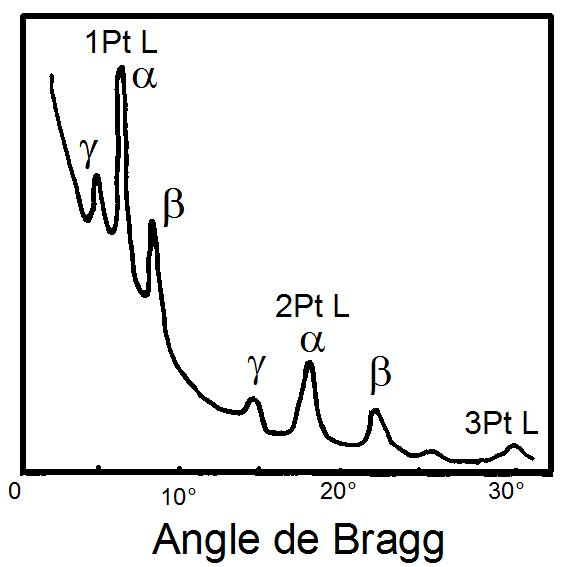 First X-Ray Spectrum recorded by W.H.Bragg and W.L.Bragg in 1913